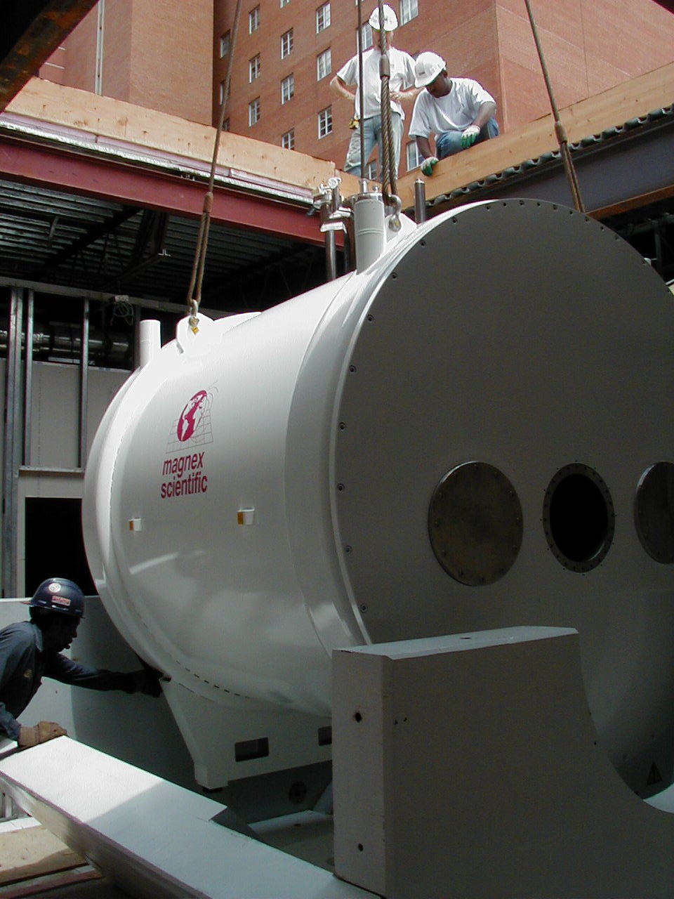 The 11.7 Tesla Animal Scanner arrived on July, 23 2000